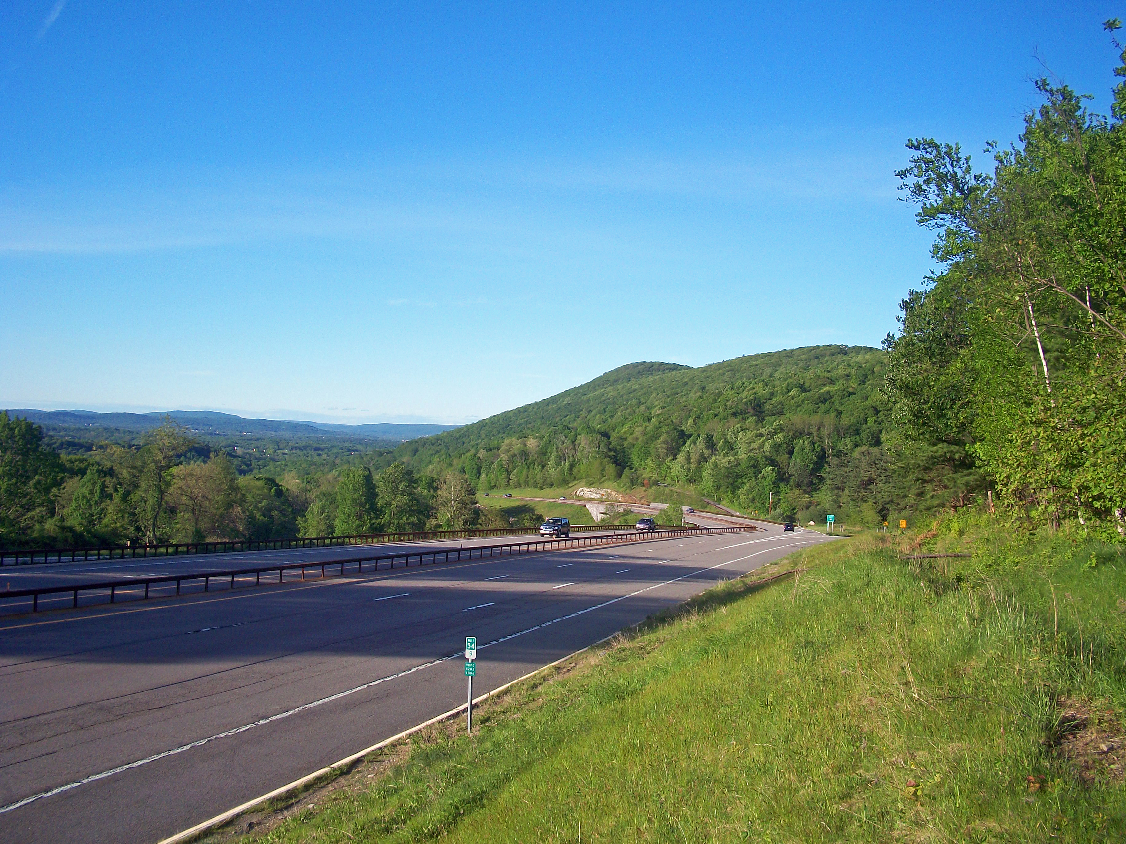 View northeast from Taconic State Parkway south of Miller Hill Road exit in East Fishkill, NY